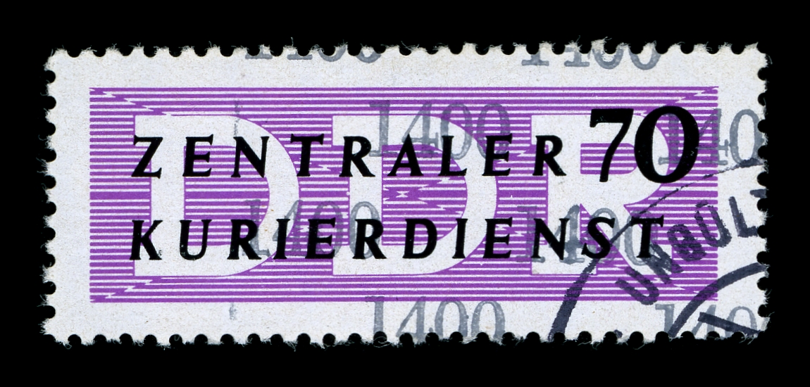 GDR Official stamp, Central Courier Service (ZKD)